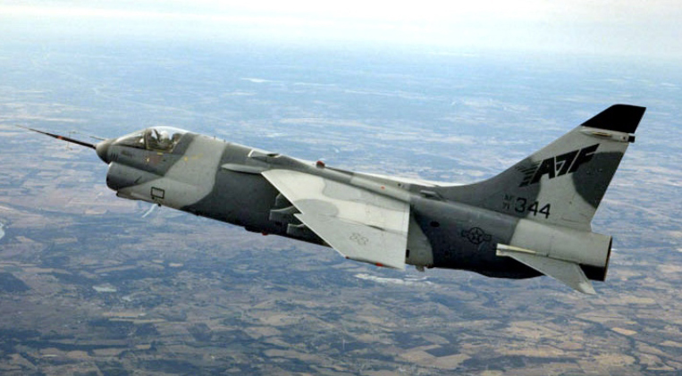 A-7F prototype in flight Jan 1972: Delivered to 355th Tactical Fighter Wing, Davis-Monthan AFB, AZ (c/n D-255) Transferred to 354th Tactical Fighter Wing, Myrtle Beach AFB, SC, Jan 1973 Transferred to 124th Tactical Fighter Squadron, IA Air National Guard, 1977 Transferred to 125th Tactical Fighter Squadron, OK Air National Guard, 1978 Transferred to 152d Tactical Fighter Squadron, AZ Air National Guard, 1980 Transferred to 124th Tactical Fighter Squadron, IA Air National Guard, 1987 Removed from operational service, flown to LTV at Hensley Field (Naval Air Station Dallas) for modification to YA-7F, Dec 1987 Delivered to 6510th Test Wing/445th FTS, Edwards AFB, California, Apr 1990 Transferred to the National Museum of the United States Air Force, placed on static display at Edwards AFB, CA, Aug 1991